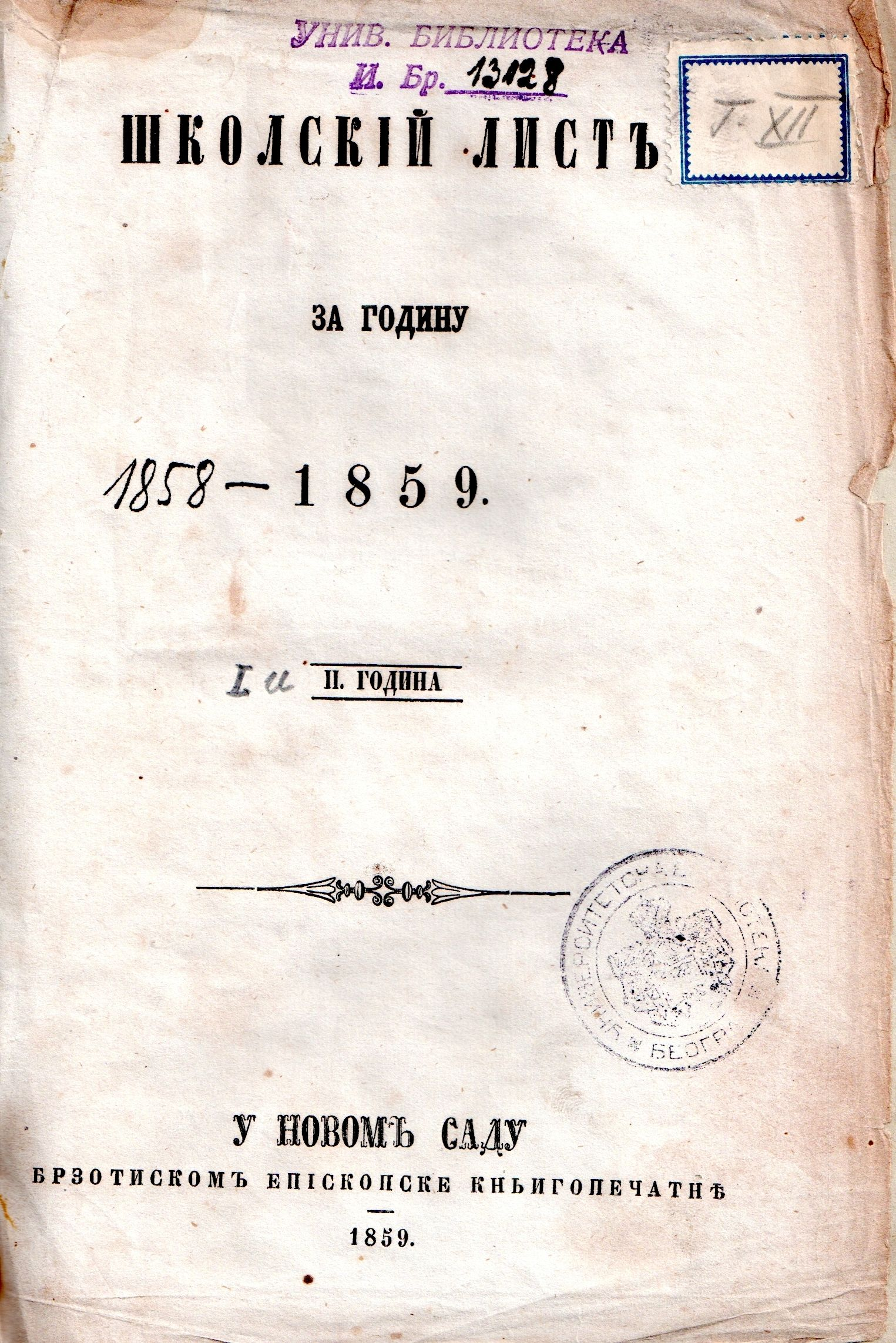 Journal front page